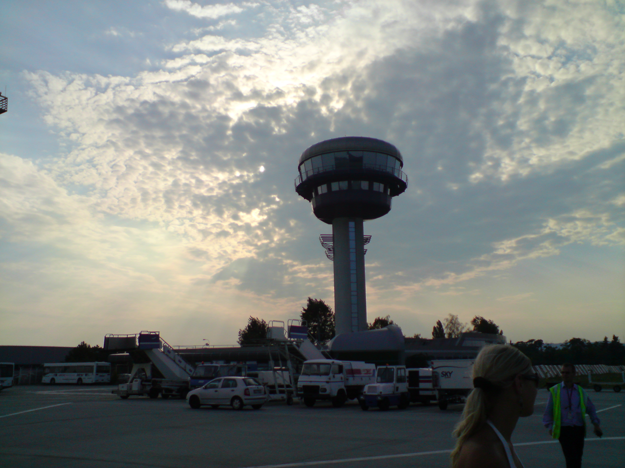 Bratislava airport control tower